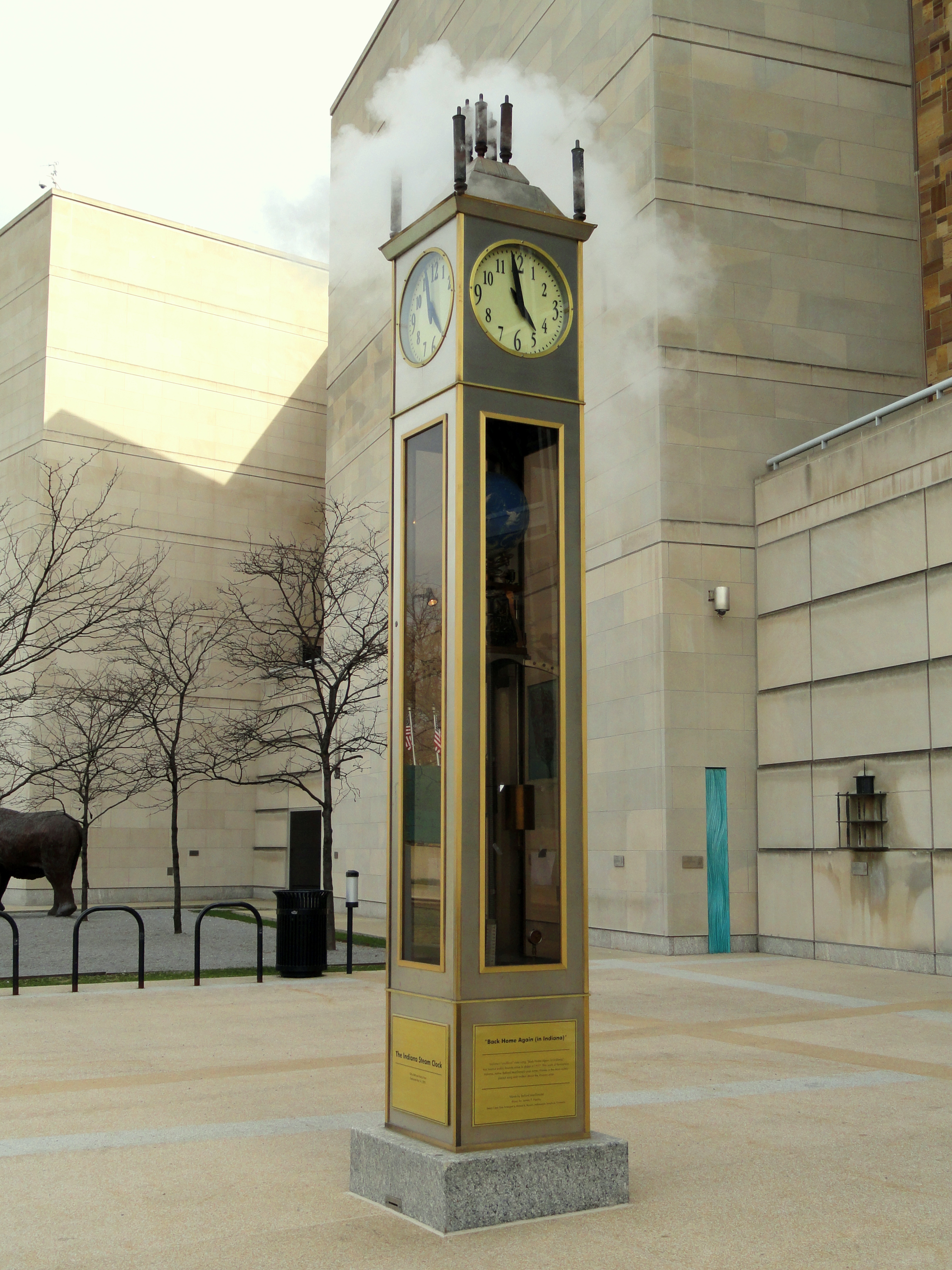 Steam clock outside Indiana State Museum, 650 West Washington Street, Indianapolis, Indiana, USA.